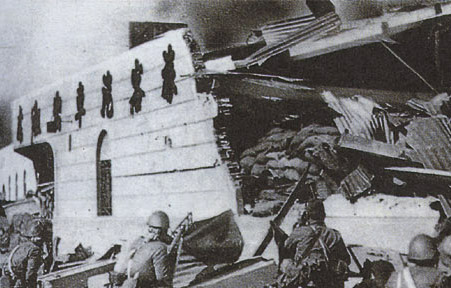 North Station breached by Japanese troops, Shanghai, China, Oct 1937